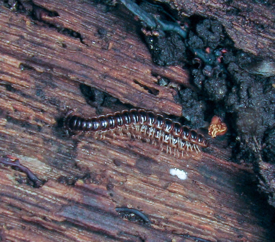 Greenhouse millipeds, Oxidus gracilis, mating. Briar Bush Nature Center, Montgomery County, Pennsylvania, USA.